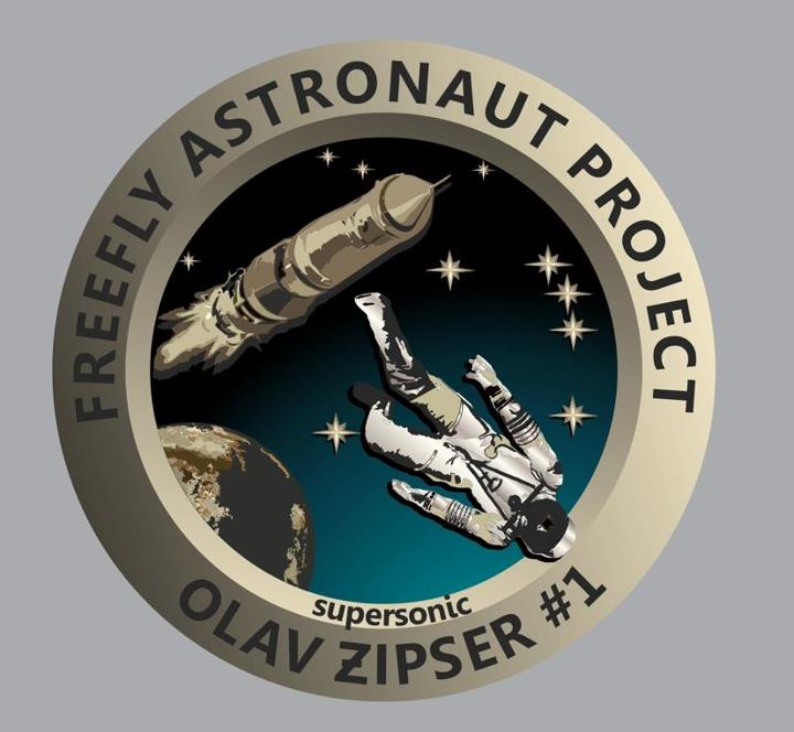 FreeFly Astronaut Project Logo and Space Patch - Olav Zipser